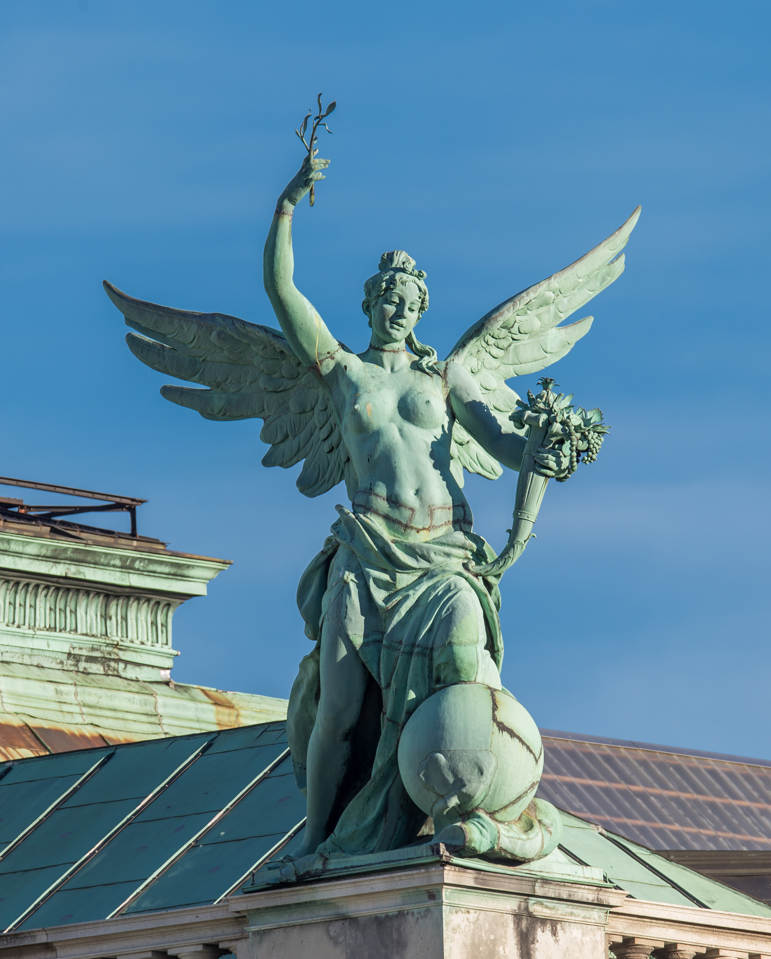 Fortuna by Johannes Benk, Neue Burg, Vienna